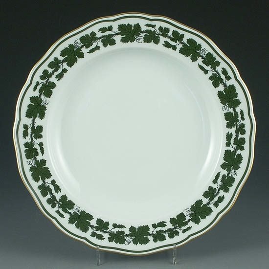 dinner plate, vineleaf garland, gold rim